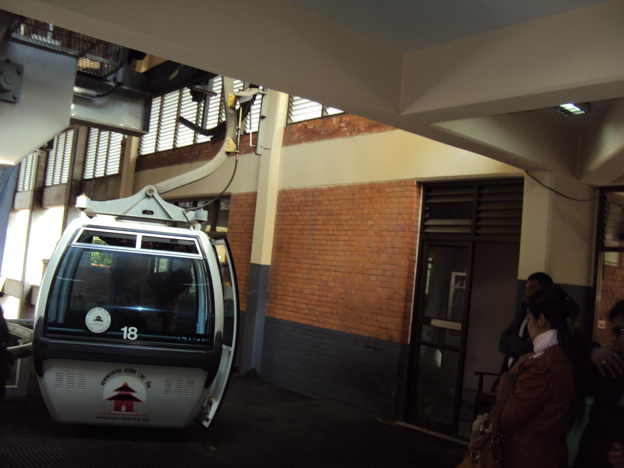 A cable car in Nepal.(Picture taken by:Chanda Ghimire)